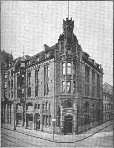 The Hirsch Pharmacy (Hirsch-Apotheke), the former Andreae Pharmacy, in Hanover in 1891